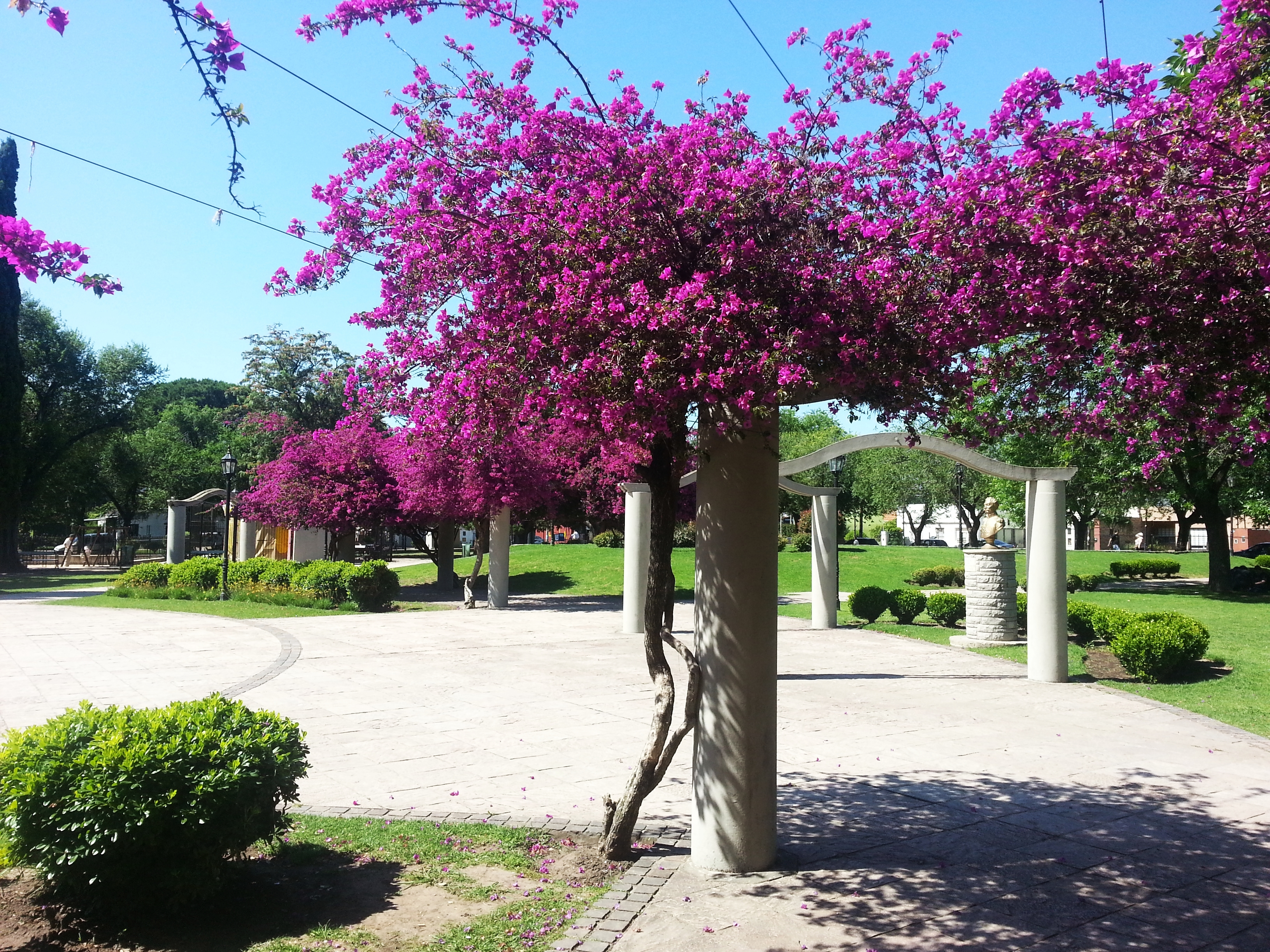 Gral. Ángel Pacheco square, in General Pacheco, Tigre Partido, Buenos Aires Province. Bougainvillea spectabilis, with its red-purple bracts, stands out in the landscape.